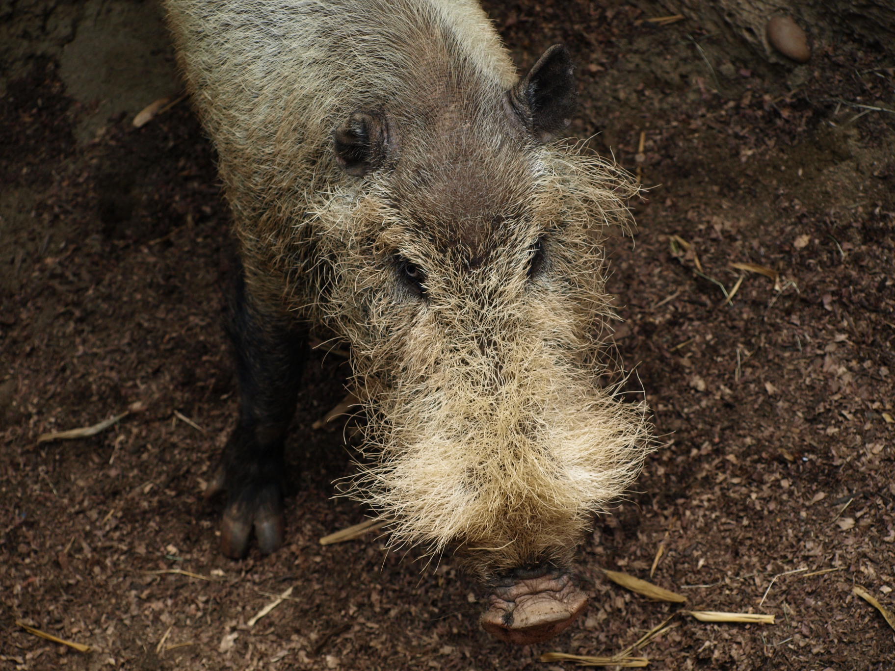 SUBJECT: Bearded Pig, San Diego Zoo LOCATION: San Diego, California, USA CAMERA: Olympus E-410 DATE: Sunday, May 25, 2008 Wikispecies has an entry on: Sus barbatus.